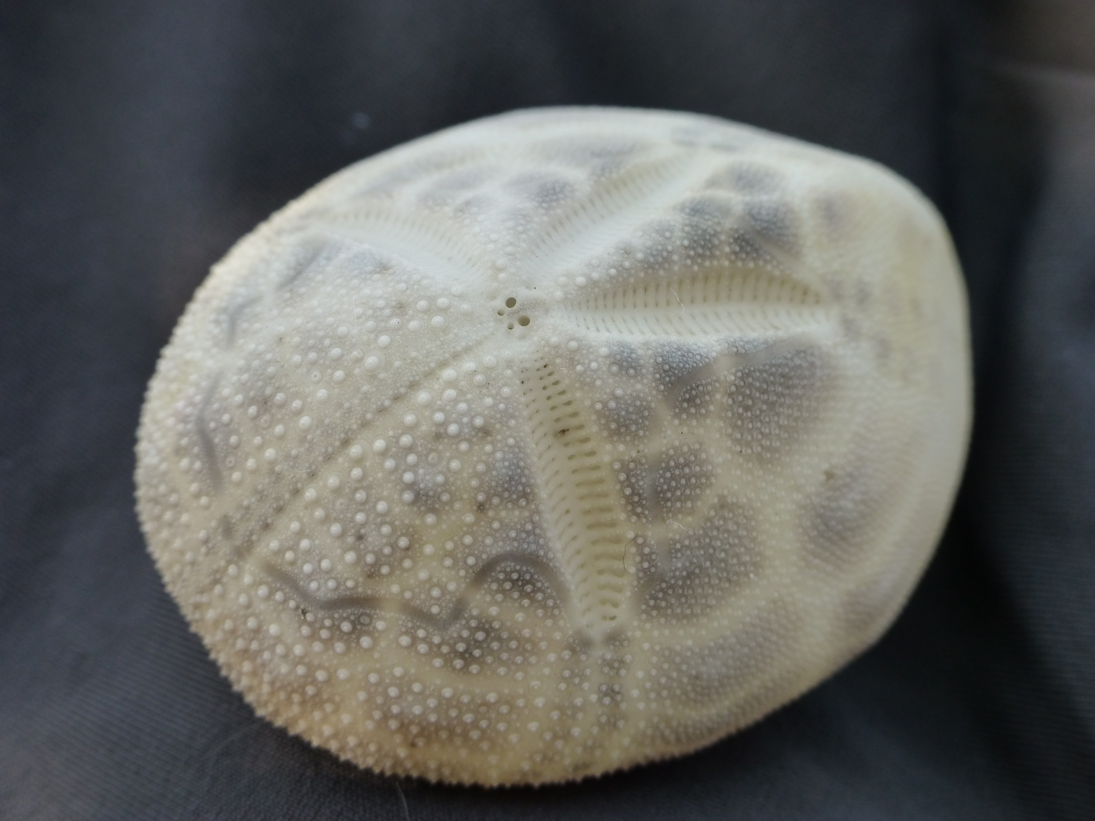 Dead heart urchin shell. Spatangoida, Söğüt, Marmaris, Turkey. Family Brissidae??